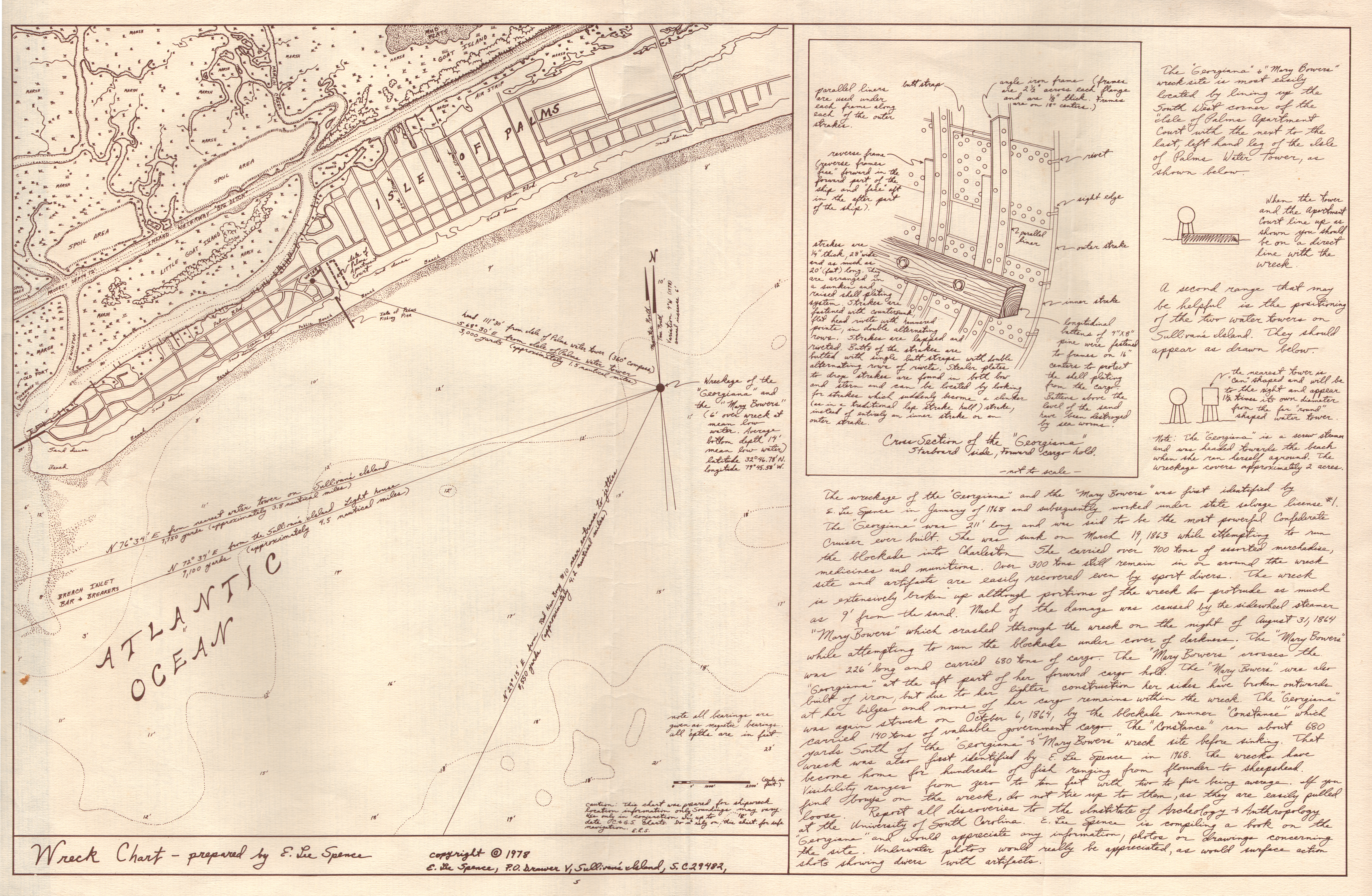 "Wreck Chart" (map showing location of the Civil War era blockade runner Georgiana, with a cross section of the wreck)